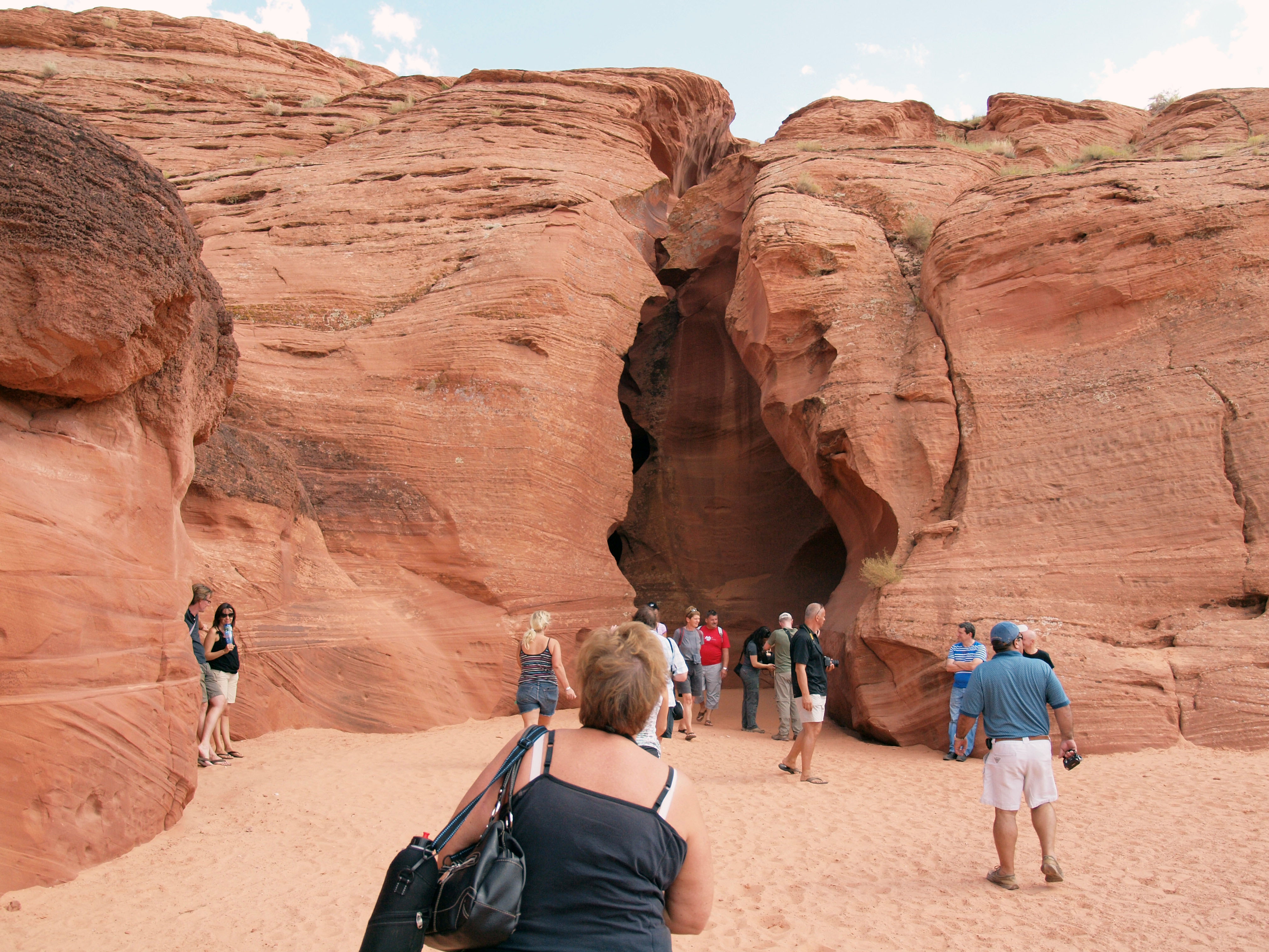 Antelope Canyon Entrance, Page, Arizona.